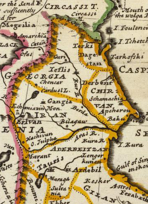 Persia, Caspian Sea, part of Independent Tartary. By H. Moll Geographer. (Printed and sold by T. Bowles next ye Chapter House in St. Pauls Church yard, & I. Bowles at ye Black Horse in Cornhill, 1736)